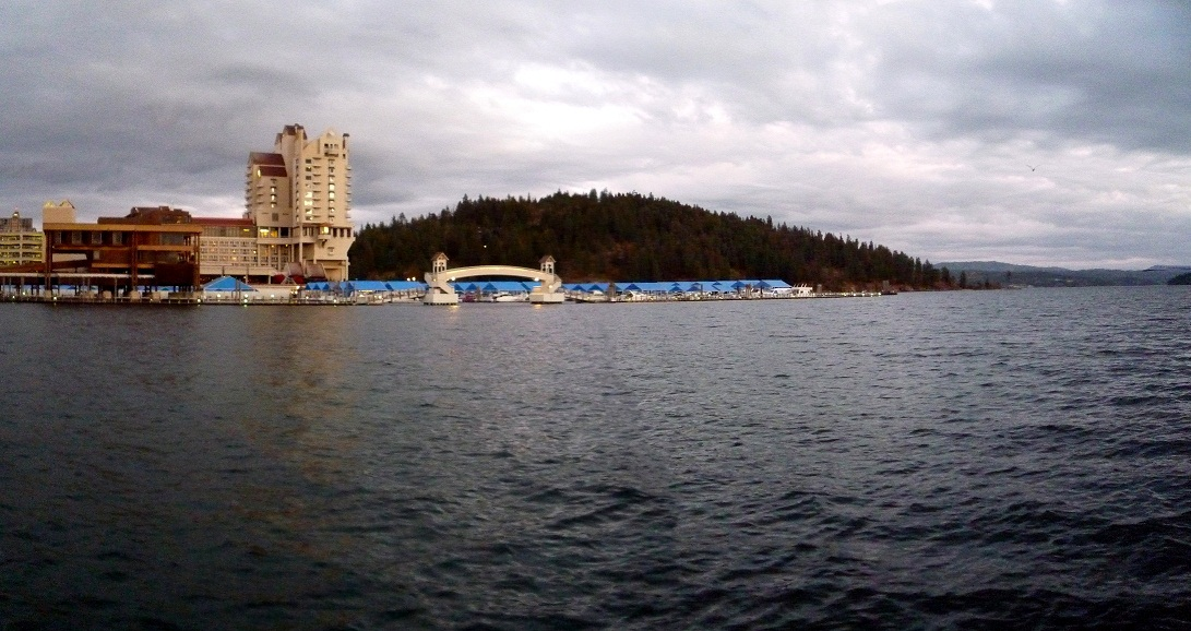 The Coeur d'Alene Resort, on Lake Coeur d'Alene in Coeur d'Alene, Idaho.